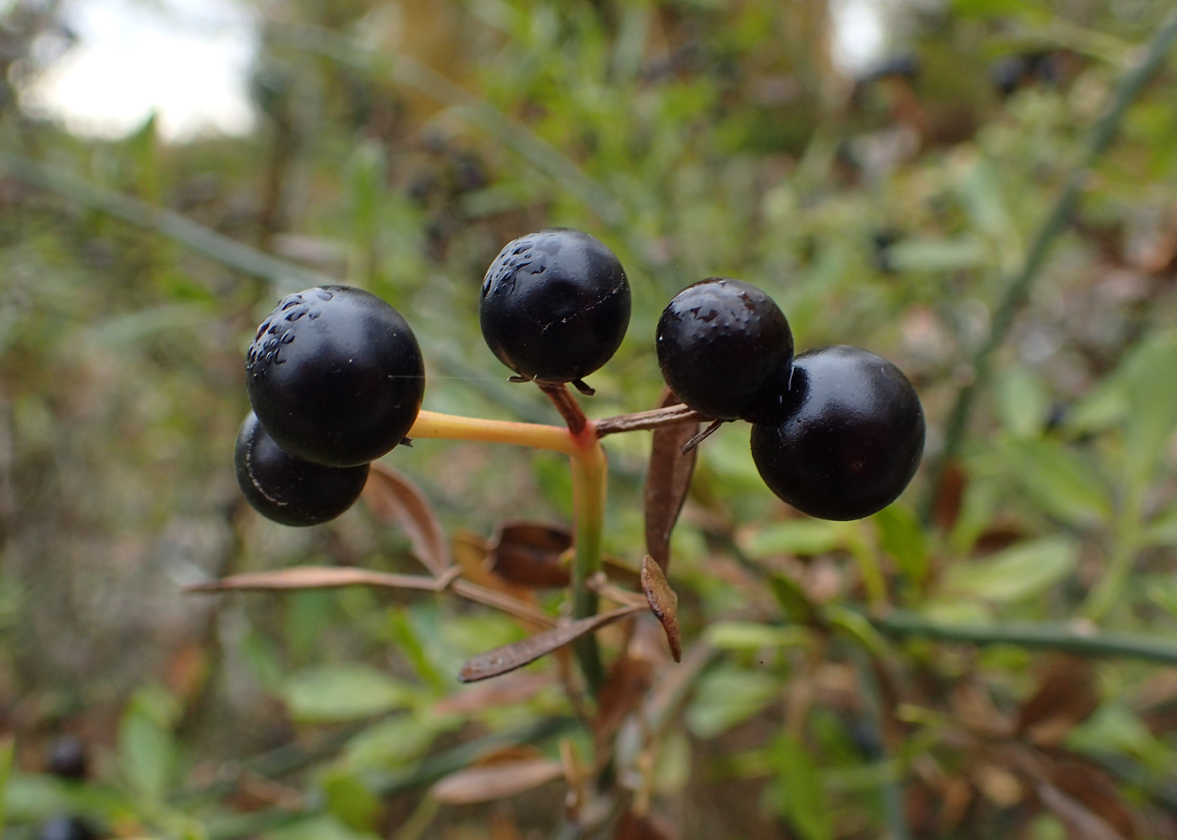 Jasminum fruticans in the UMCS Botanical Garden in Lublin